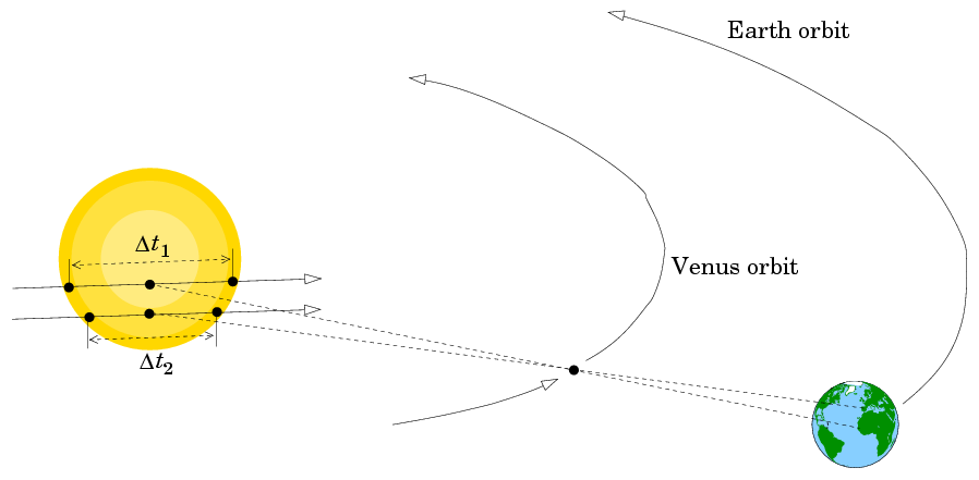 Transit of Venus